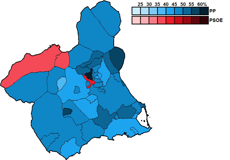 Most-voted party in Murcia municipalities, showing vote share obtained, in the Spanish general election, 2016.